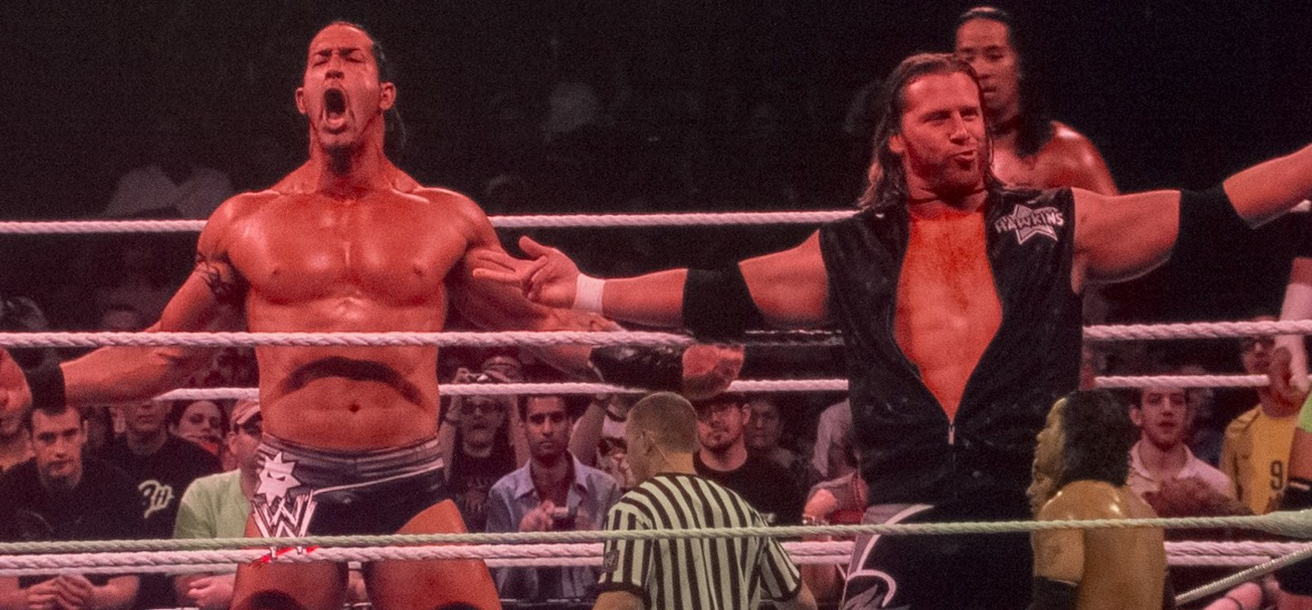 Curt Hawkins and Tyler Reks posing at the 2 April 2012 WWE Superstars taping